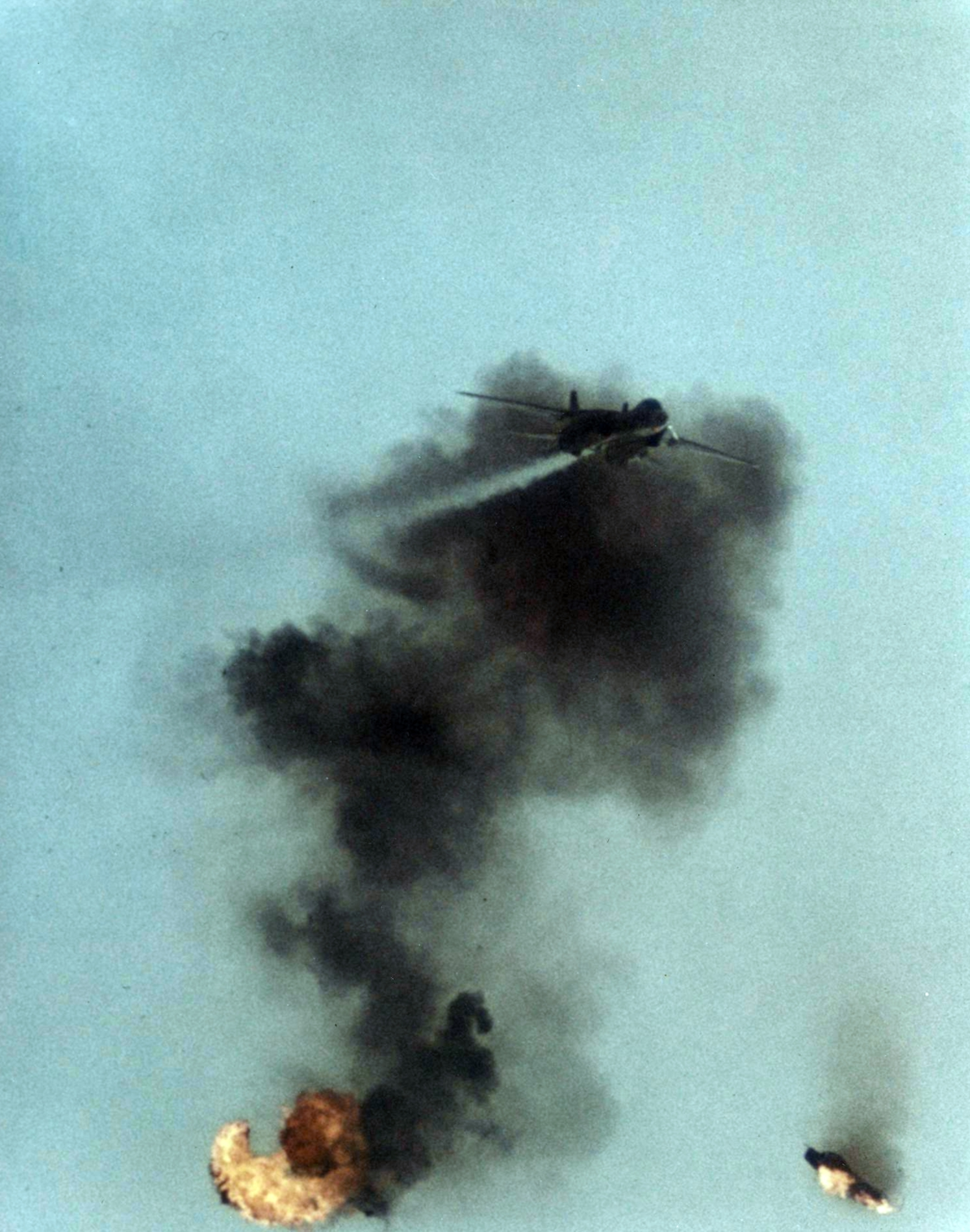 A Grumman F-14A Tomcat flies over the debris of a North American QF-86F Sabre target drone that it shot down with an AIM-9L Sidewinder air-to-air missile over the U.S. Navy Naval Weapons Center (NWC) China Lake, California (USA), 29 September 1977.